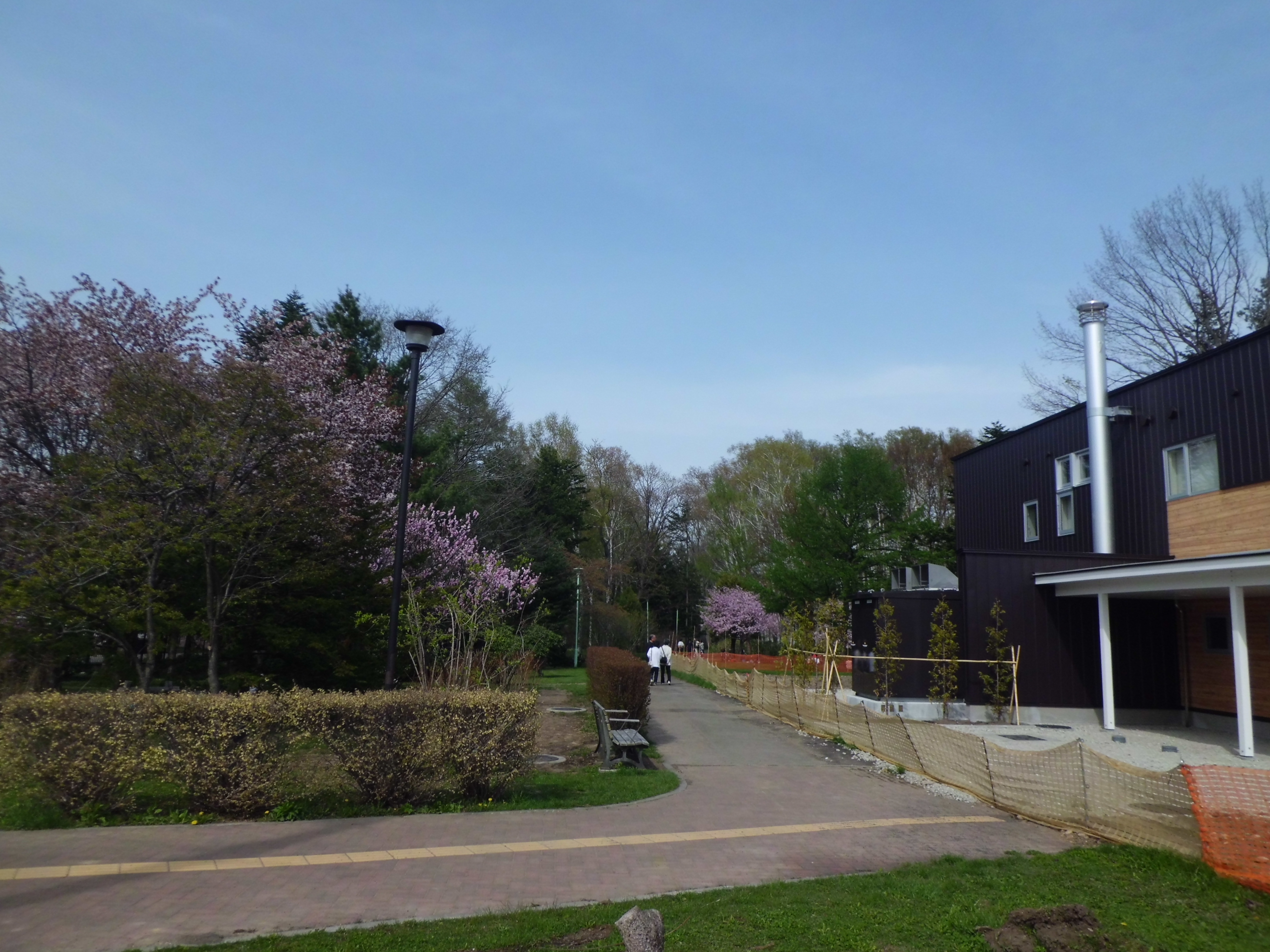 West entrance of Toyohira Park